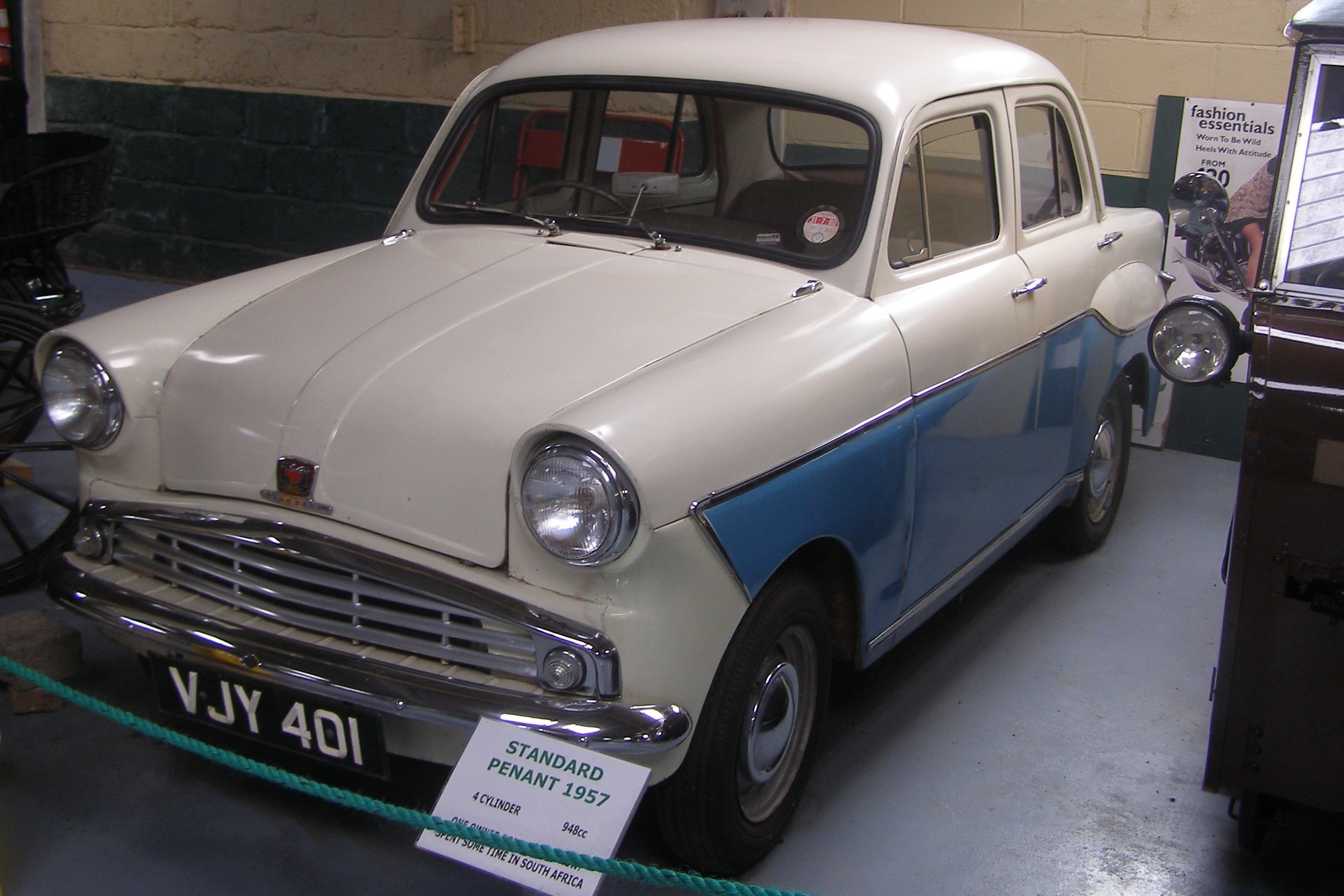 Standard Pennant at the Bentley Wildfowl and Motor Museum, Halland, East Sussex, England